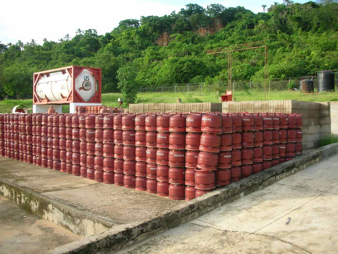 VidaGas (propane distribution company) storage facility in Pemba. From the GiveWell visit to NGO Village Reach in Pemba, Mozambique. February 2010. More information.